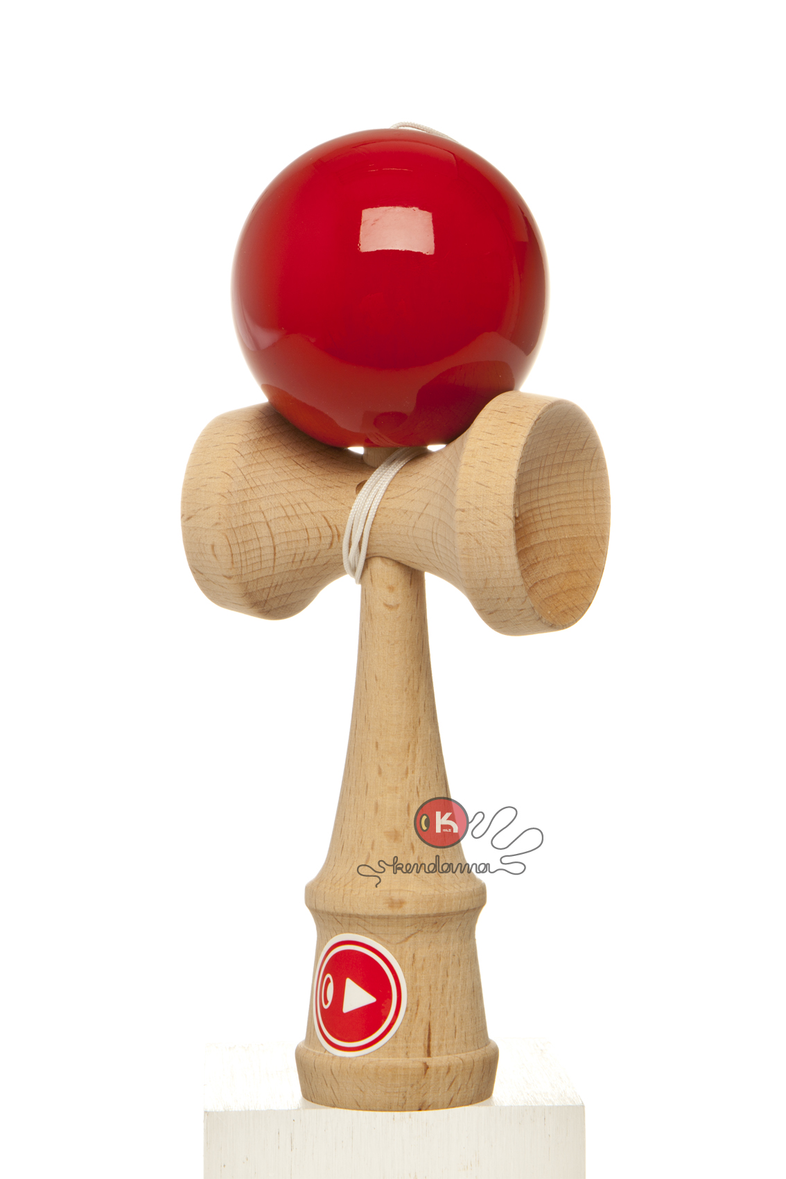 This is the latest produced Kendama on the toy toymarket, by Kendama Europe